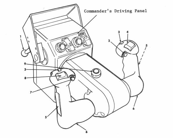 MBT-70 commander controls.